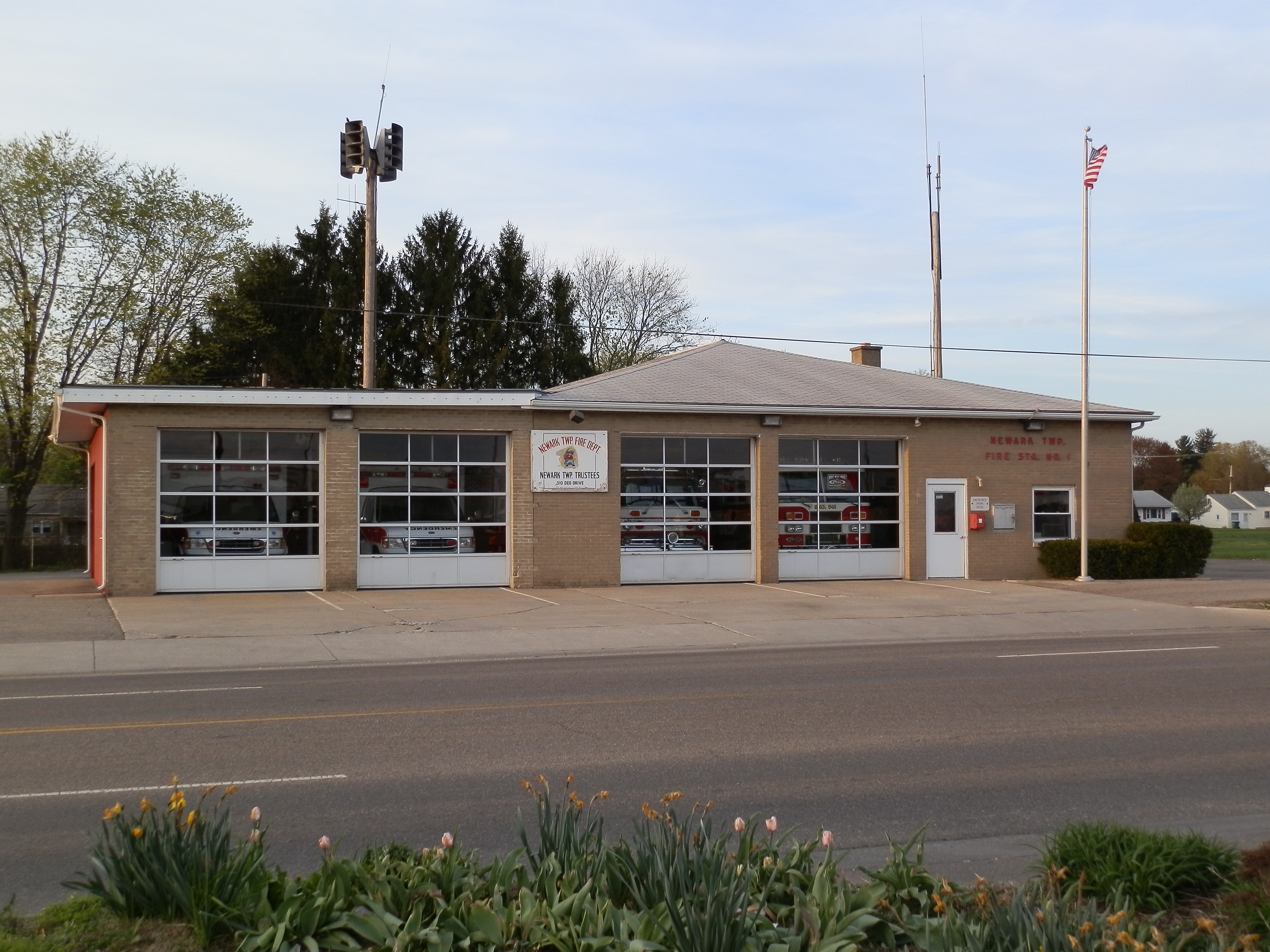 Newark Township Fire Station, Licking County, Ohio